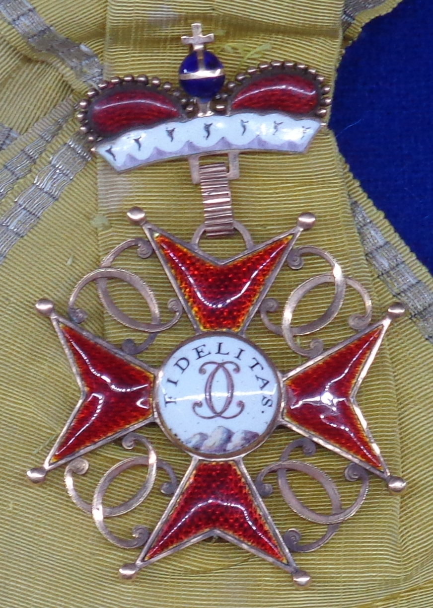 House Order of Fidelity, badge of Grand Cross, 1715-1803. Margraviate of Baden. The exhibition of the Tallinn Museum of Orders of Knighthood, Estonia.